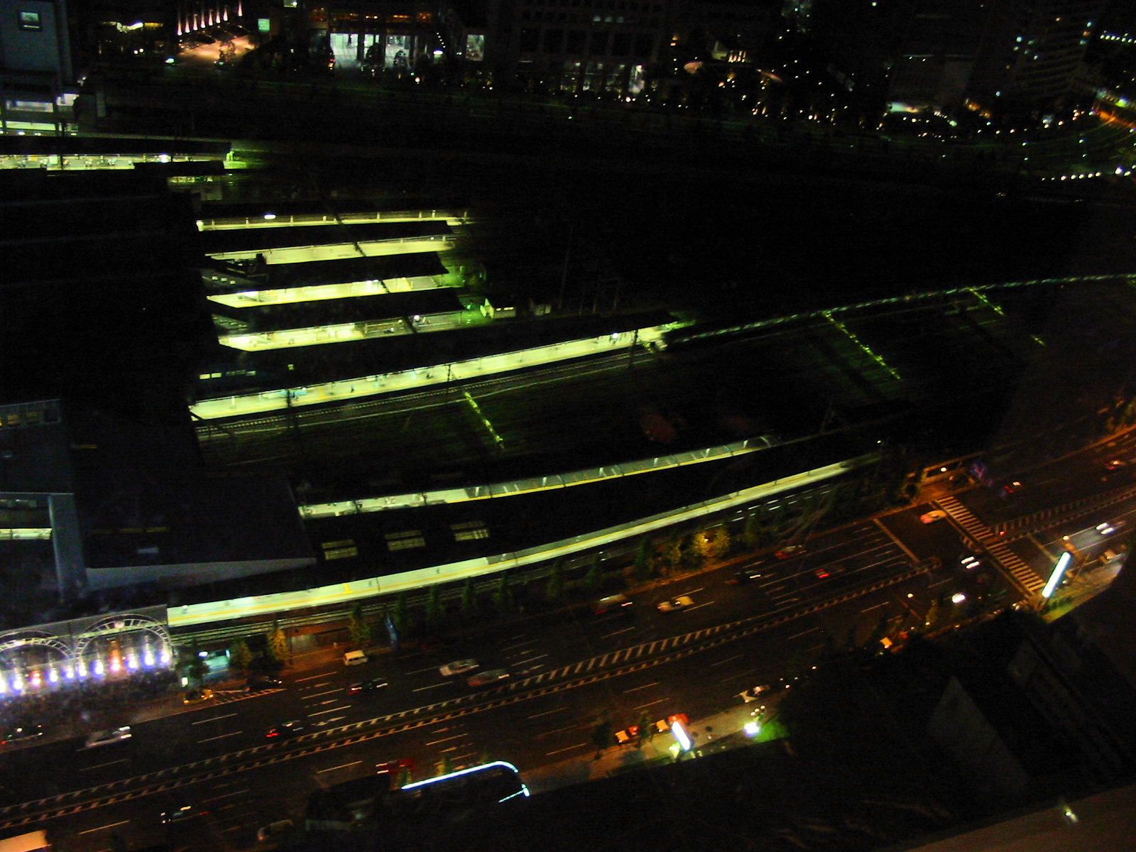 The decks of Shinagawa Station, Tokyo, Japan. Seen from the top of Shinagawa Prince Hotel.